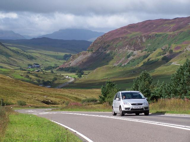 A westerly view of the A4212 looking down Cwm Prysor. Barrie Hughes